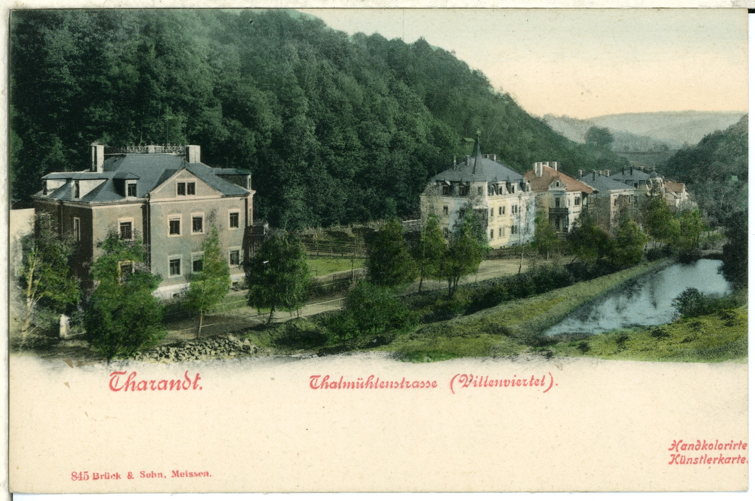 This postcard is from publisher Brück & Sohn in Meißen ( This postcard has a unique number 00845 and is available in a higher resolution at the publisher. This images was uploaded in a cooperation project between Wikipedians and the publisher.